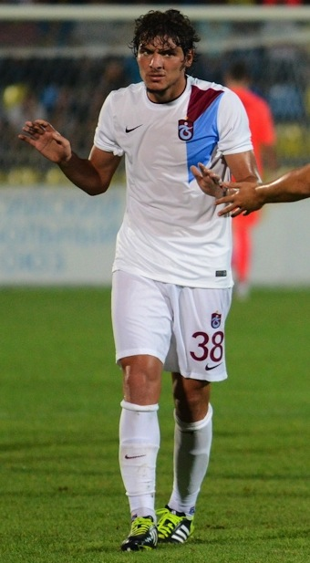 Salih Dursun Playing of Trabzonspor